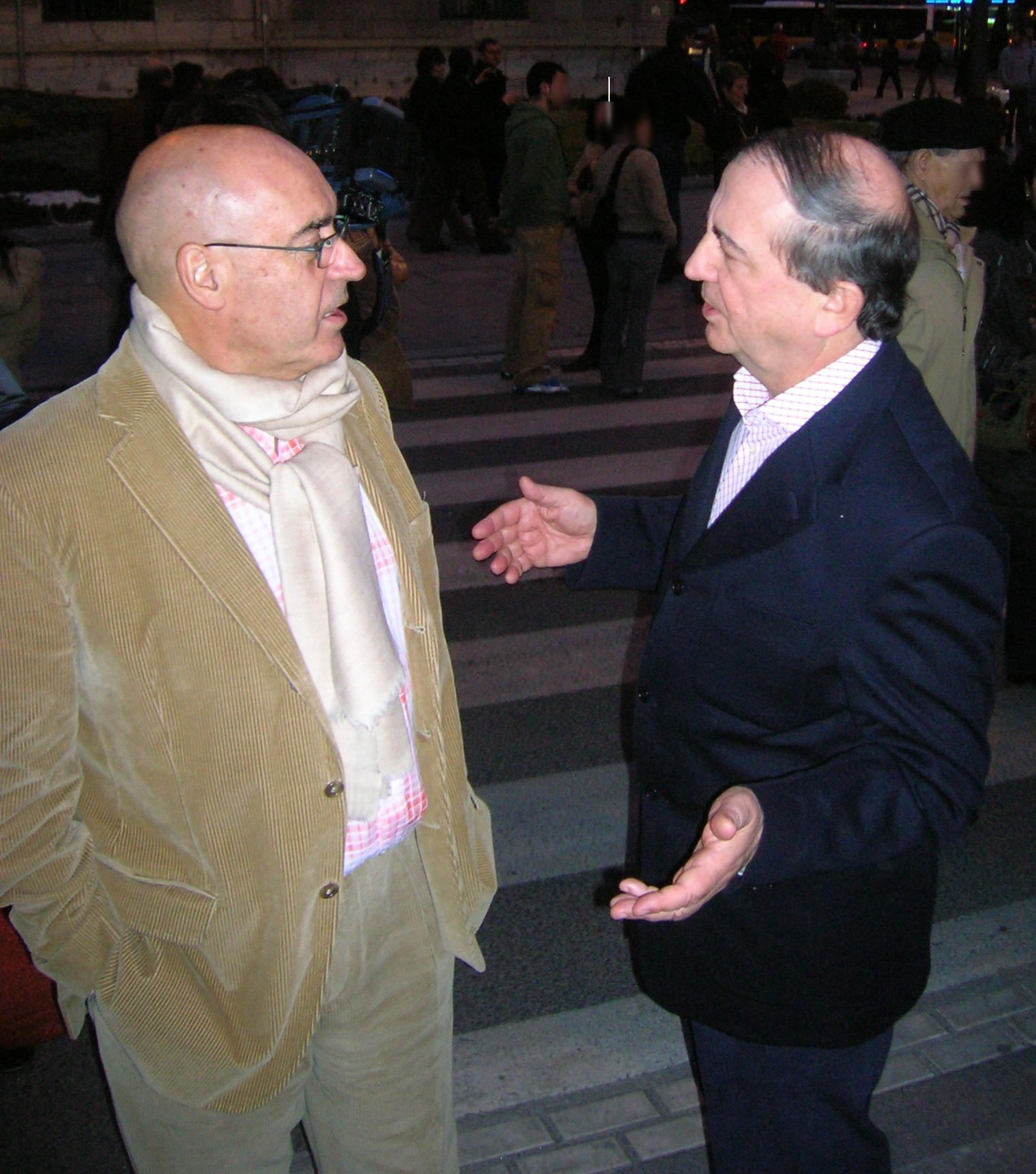 Javier Rojo (Basque Country's Socialist Psrty - Socialist Workers Party of Spain), President of Spanish Senate and Inaki Anasagasti (Basque Nationalist Party), Senator, talk to each other in Bilbao